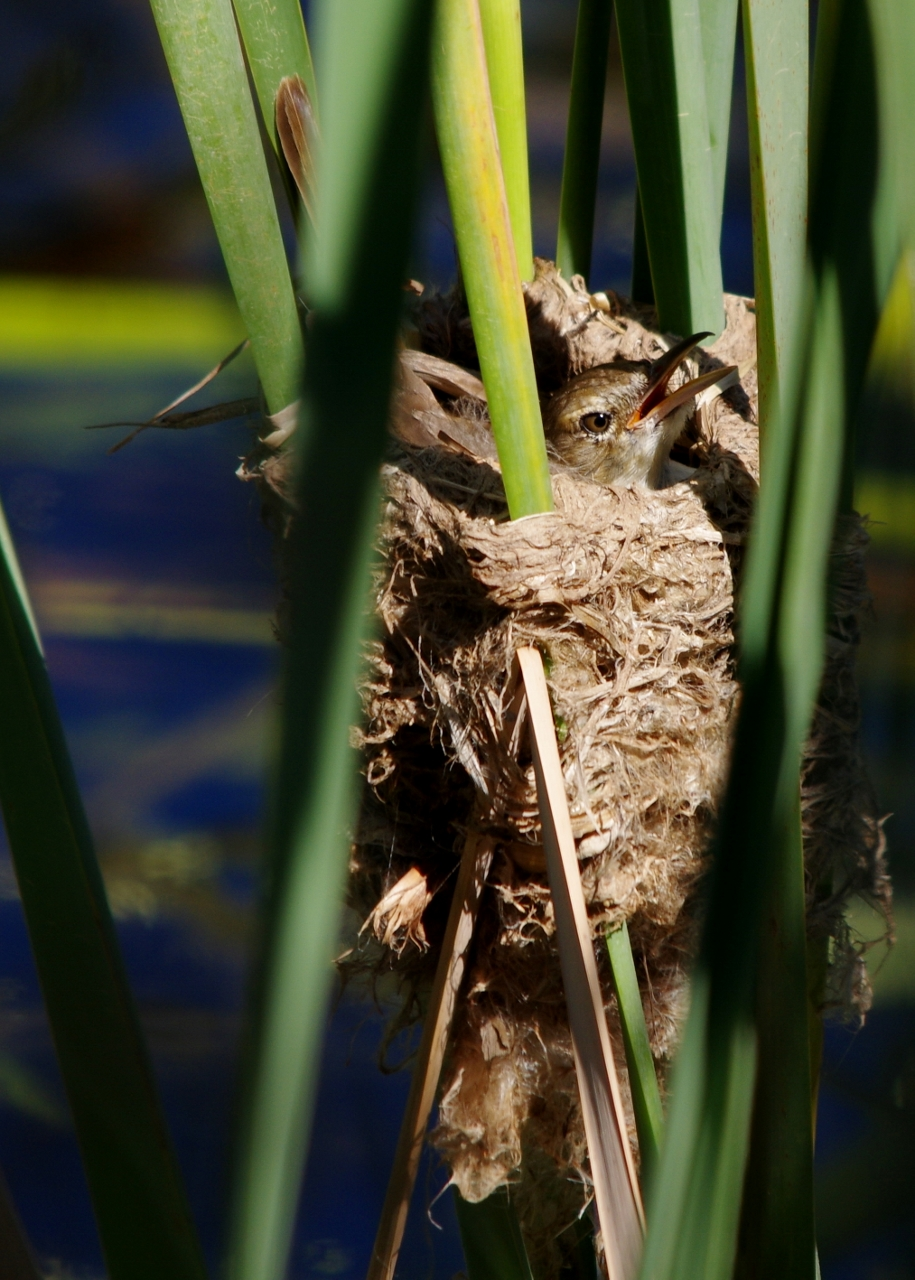 Australian Reed warbler on nest @ Studmaster Park, Wanneroo, Western Australia.